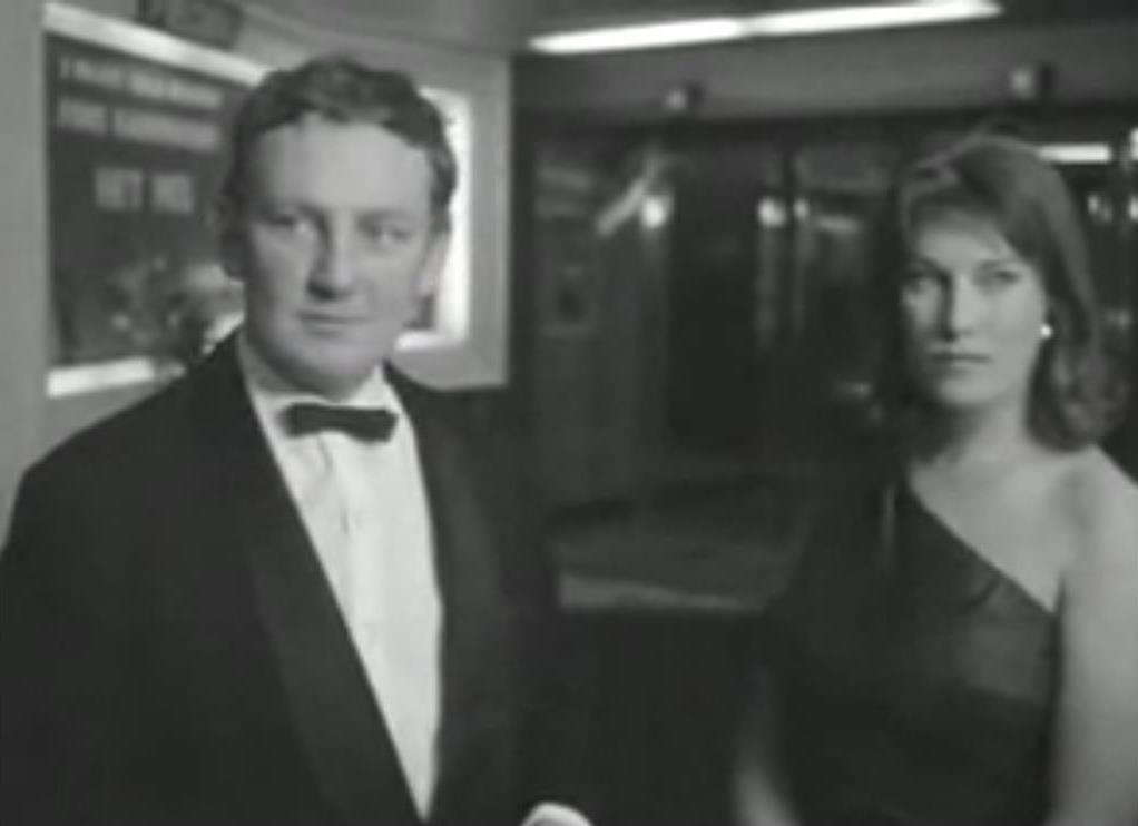 Belgian writer Hugo Claus and his wife actress Elly Overzier at the premiere of the film Het mes (Amsterdam, 1961)